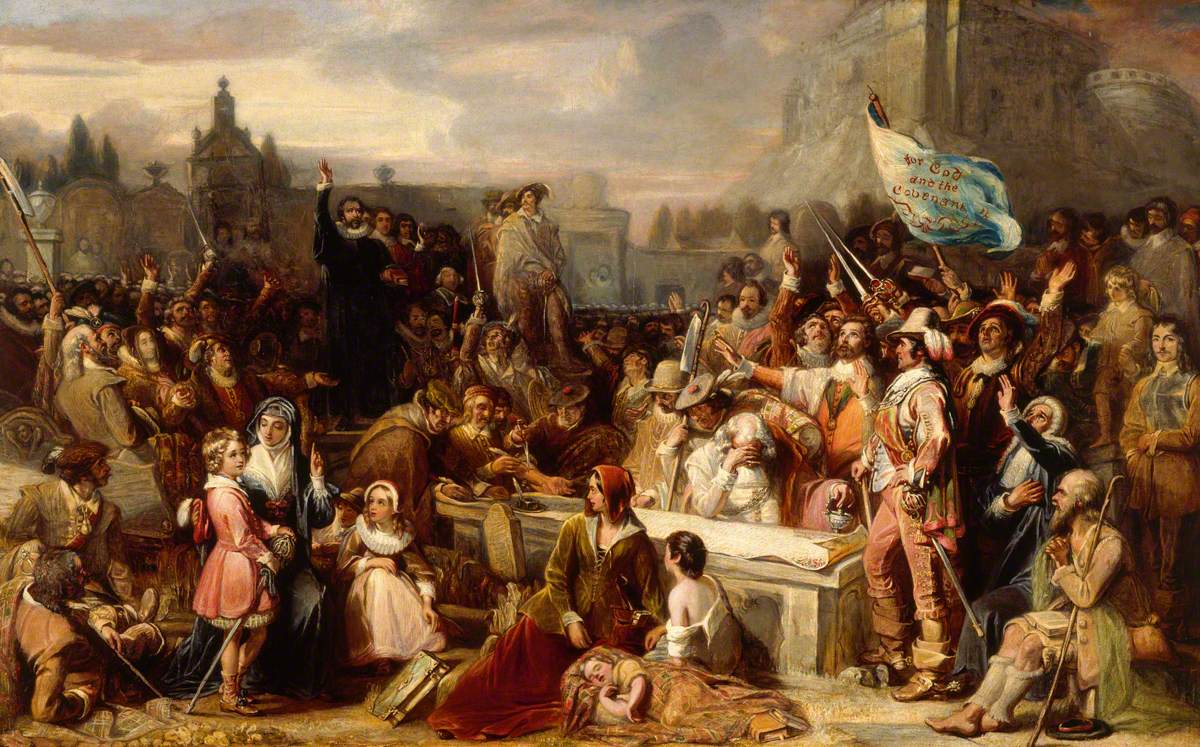 Painting by William Allan (1782–1850) of the signing of the National Covenant in Greyfriars Kirkyard, Edinburgh.